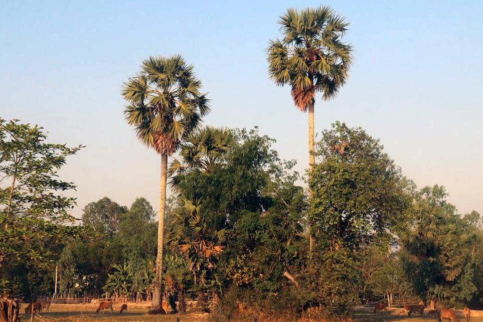 A typical house compound in rural areas in Prey Veng Province